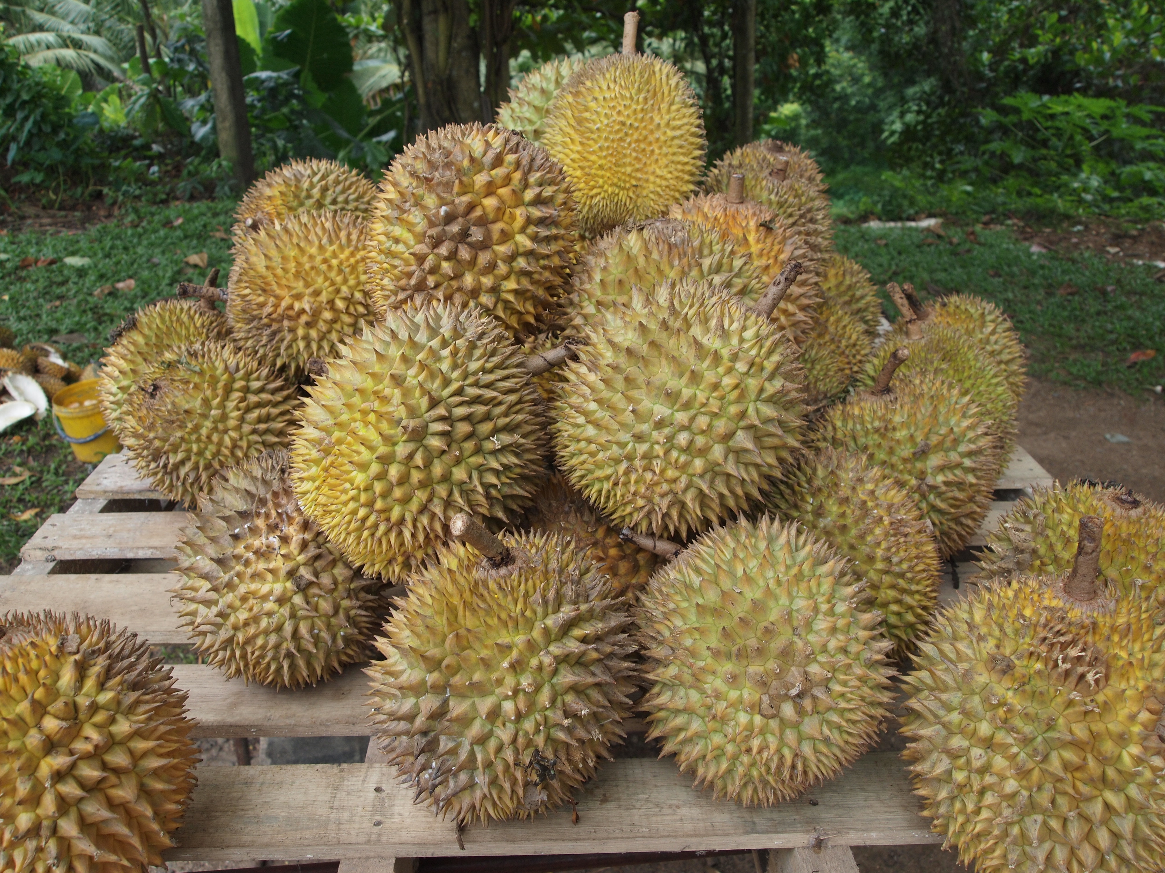 Durian "The King of Fruits", Malaysia